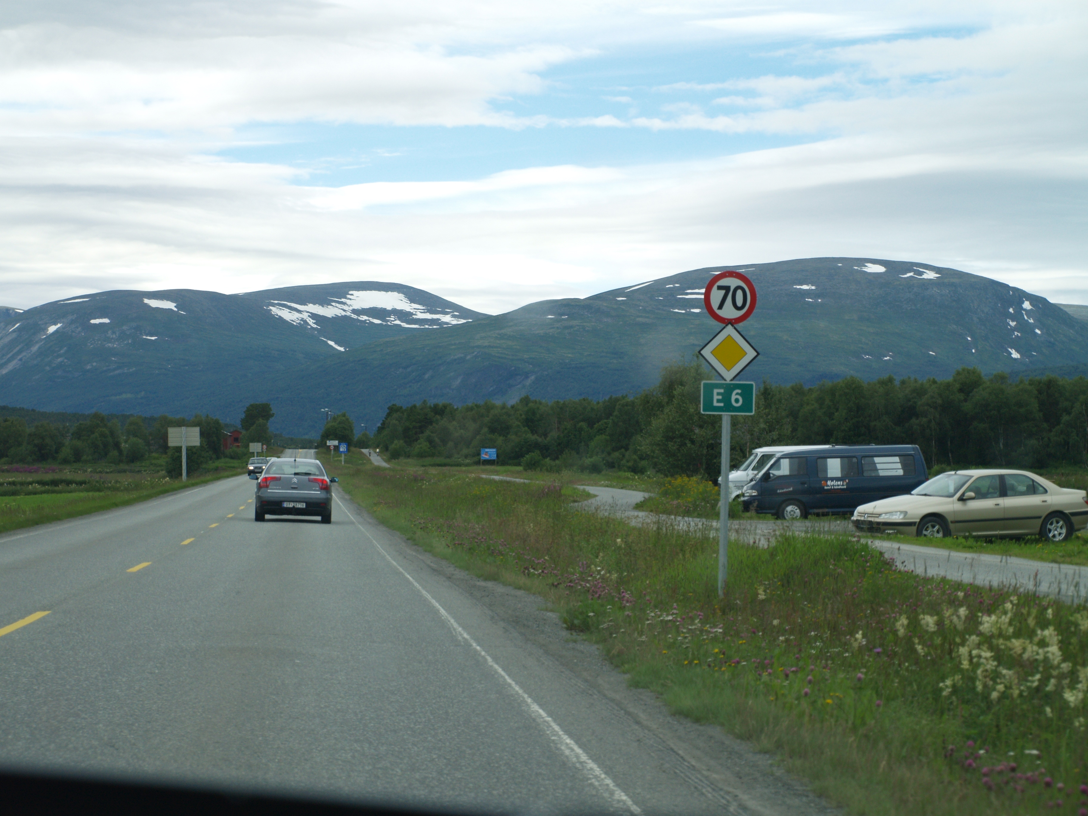 E6 a few kilometers from Oppdal, Norway